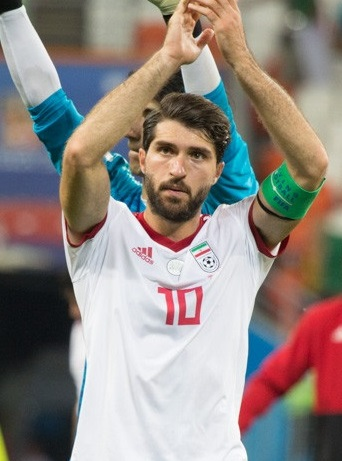 نیمه دوم بازی تیم‌های فوتبال ایران و پرتغال در جام جهانی ۲۰۱۸